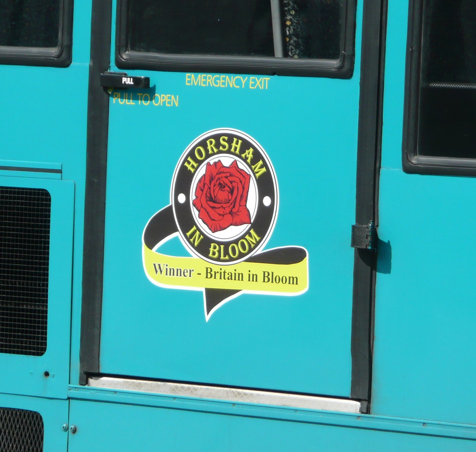 The branding on the side of Arriva Guildford and West Surrey's bus 3082 (P282 FPK), celebrating Horsham's win of the Britain in Bloom contest. The bus is a Dennis Dart SLF/Plaxton Pointer, in Horsham on route 51.